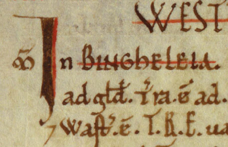 A small extract of a page of the Domesday Book of 1086. 16:43, 3 June 2005 MickWest 455x294 (46530 bytes) (A small extract of a page of the Domesday Book of 1086. PD-old )